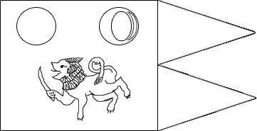 The flag believed to have been used by Sri Lankan king Dutthagamani and subsequent monarchs.